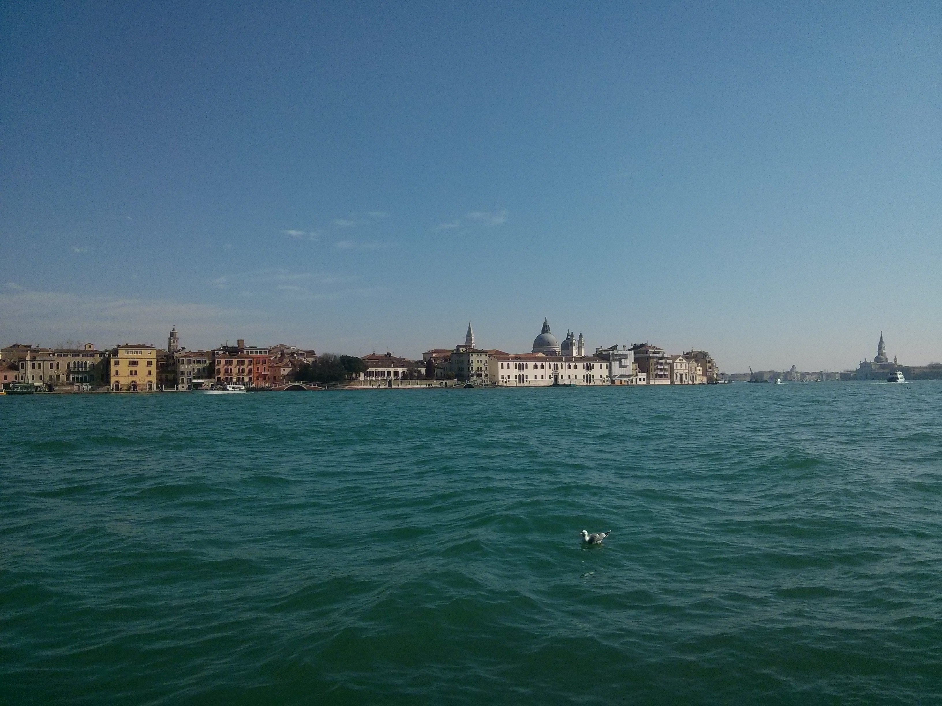 View from La Giudecca Mar 2015